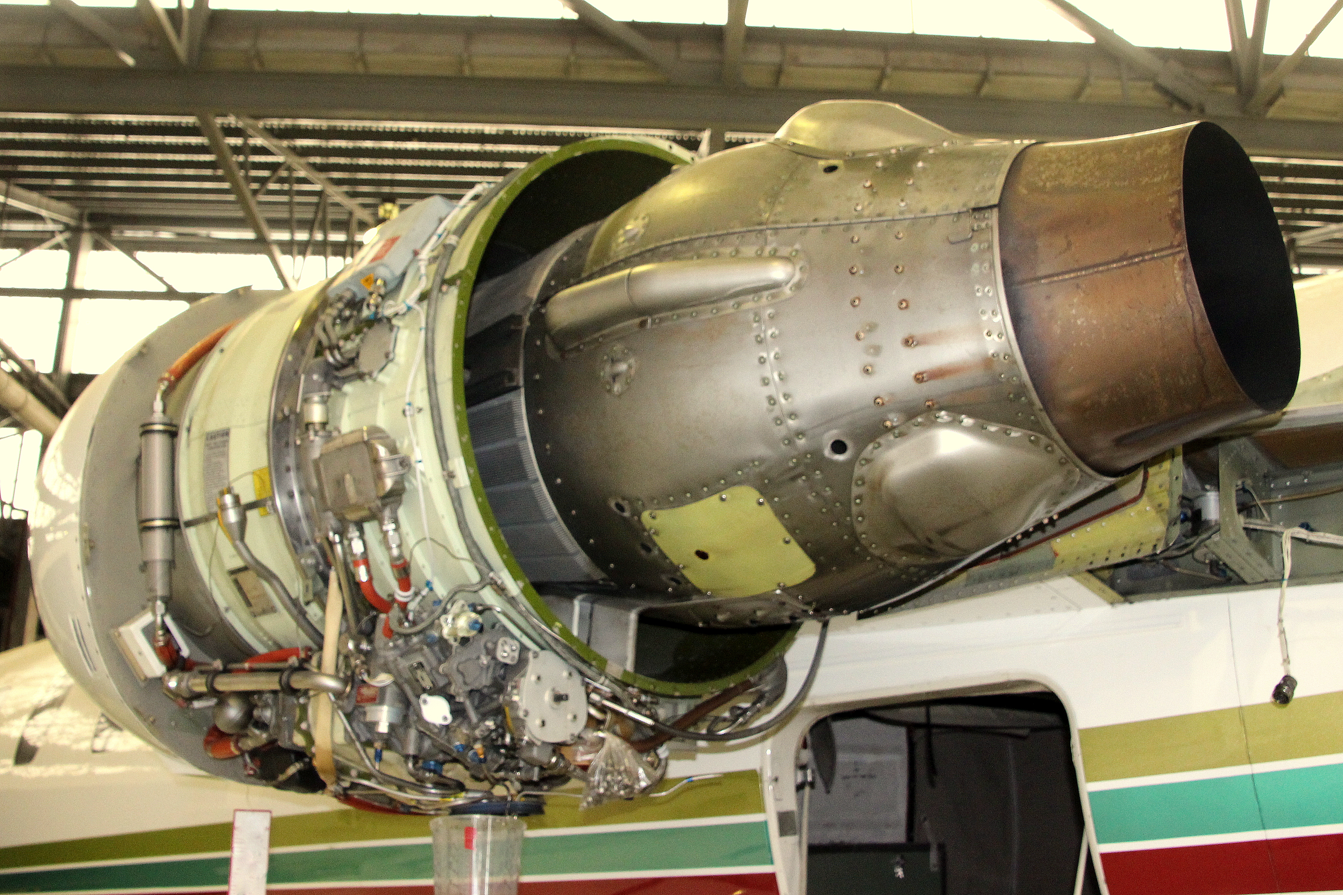 A Garrett TFE731 engine mounted on the left pylon of a Cessna 650 Citation VII undergoing maintenance. Digital image taken by YSSYguy on 10 April 2015 and uploaded for use in the Garrett TFE731 article. Image edited using Picasa software. YSSYguy (talk) 07:02, 6 November 2016 (UTC)